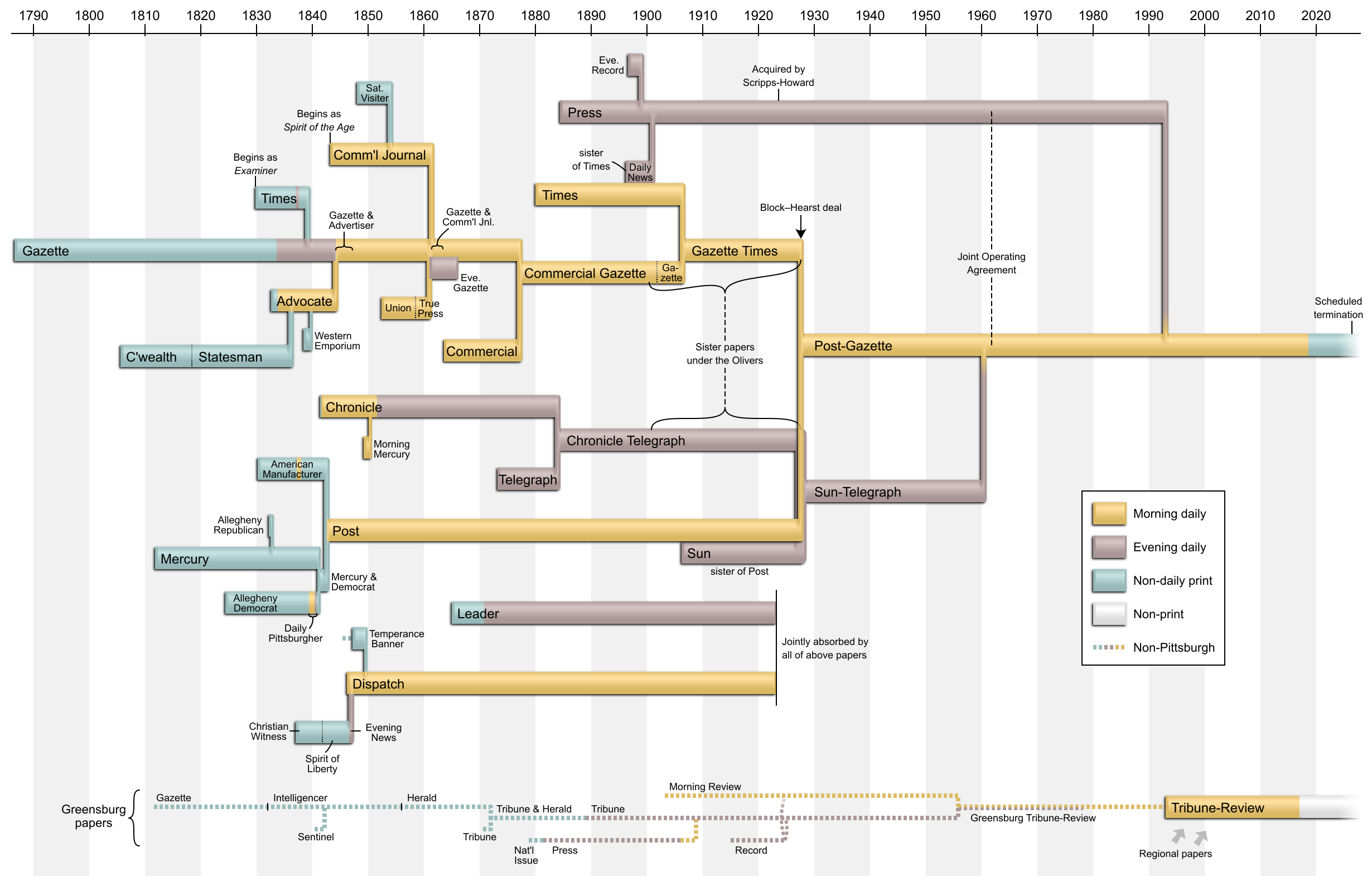 Pittsburgh newspaper consolidation timeline